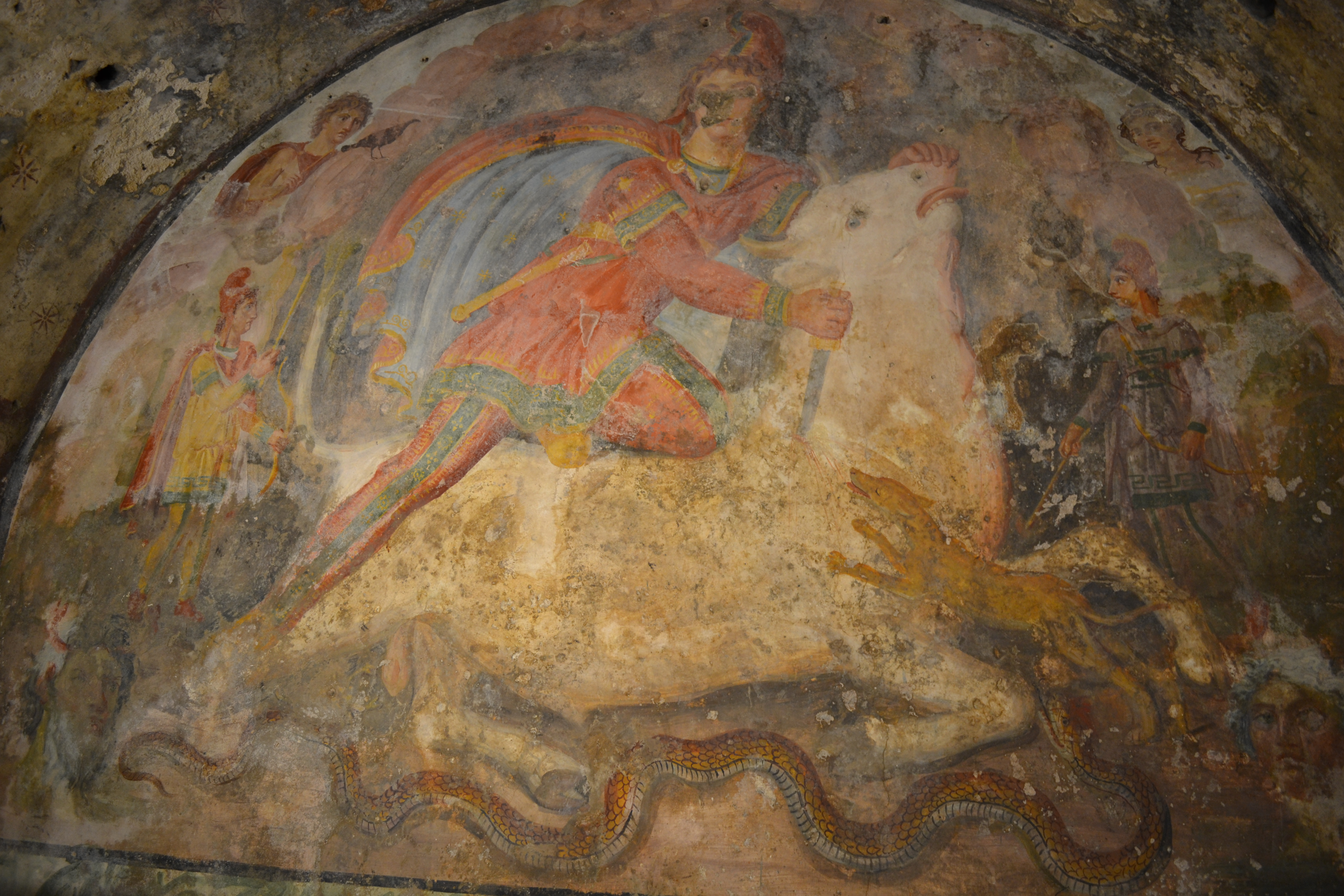 CIMRM 181: Tauroctony fresco in the mithraeum of Santa Maria Capua Vetere, 2nd century. Vermaseren notes that the face was damaged in 1947 by playing children.